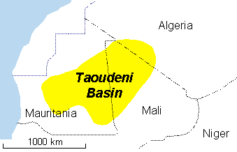 Map of the Taoudeni Basin, a major geological formation in the Sahara